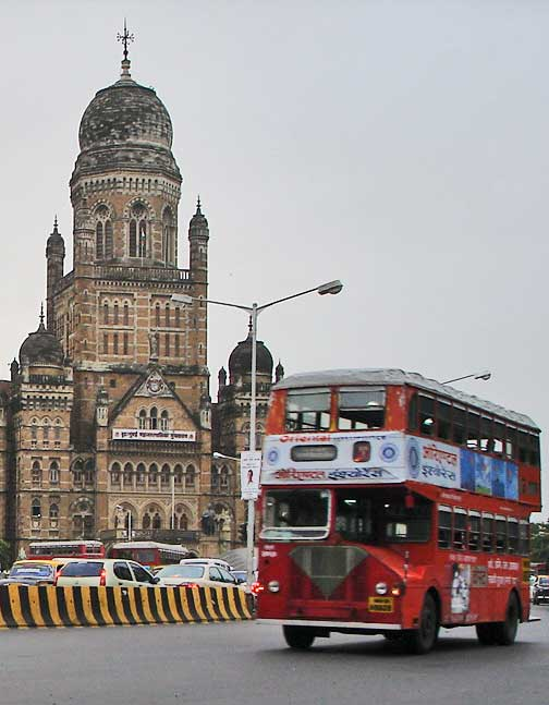 The headquarters of the Brihanmumbai Municipal Corporation, located near the Mumbai CST railway station